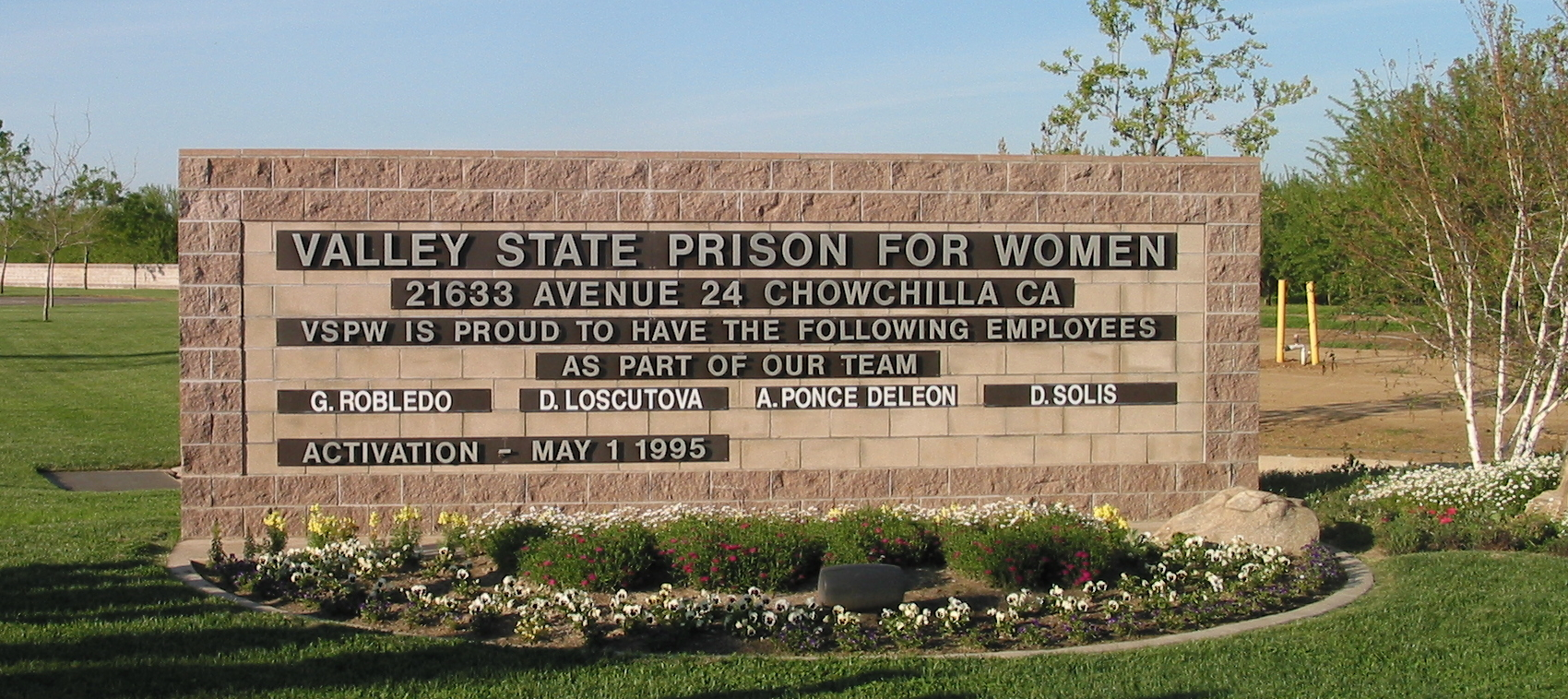 Entrance sign to Valley State Prison for Women along Avenue 24 in Chowchilla, California